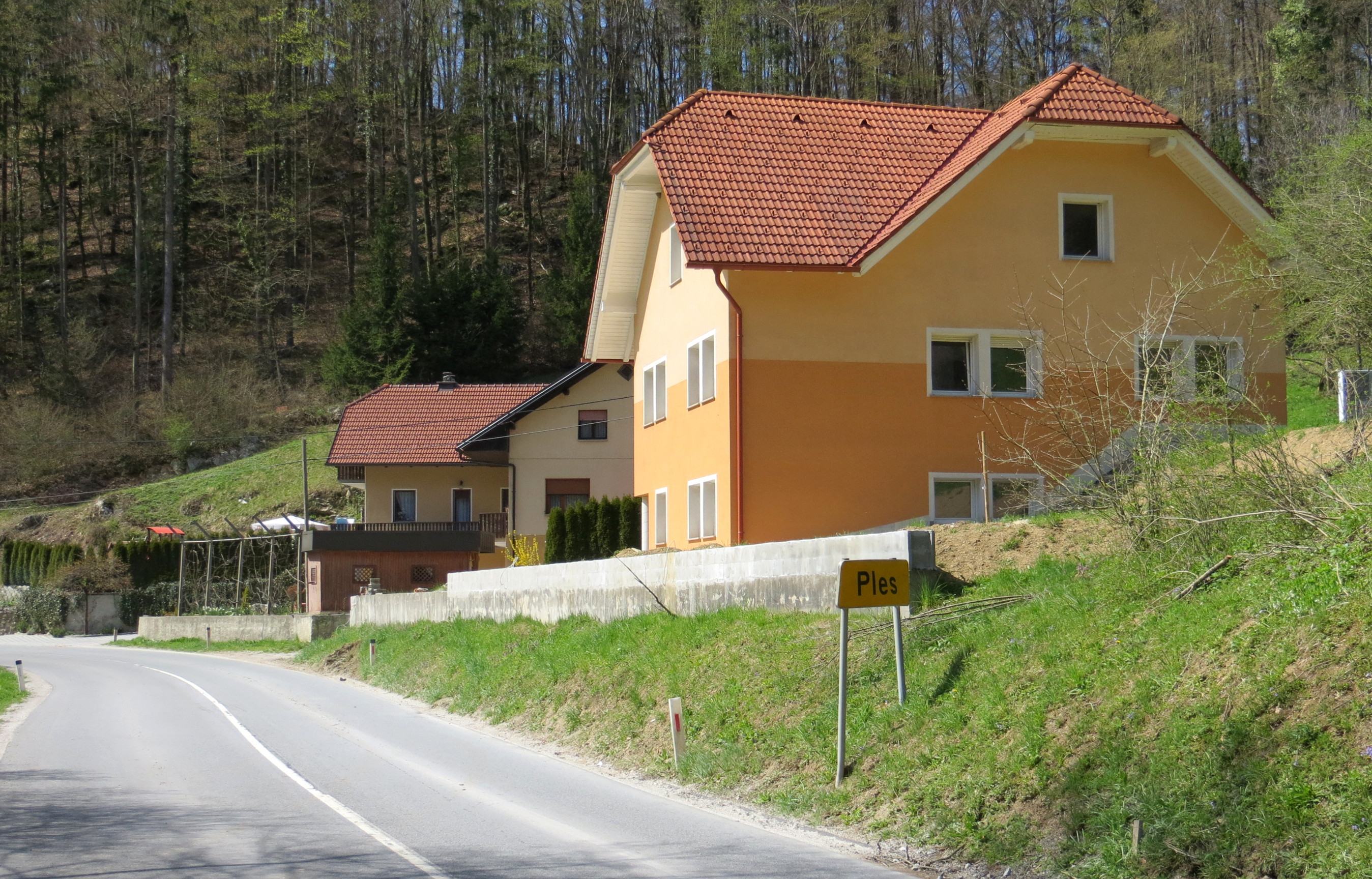 Ples, Municipality of Moravče, Slovenia